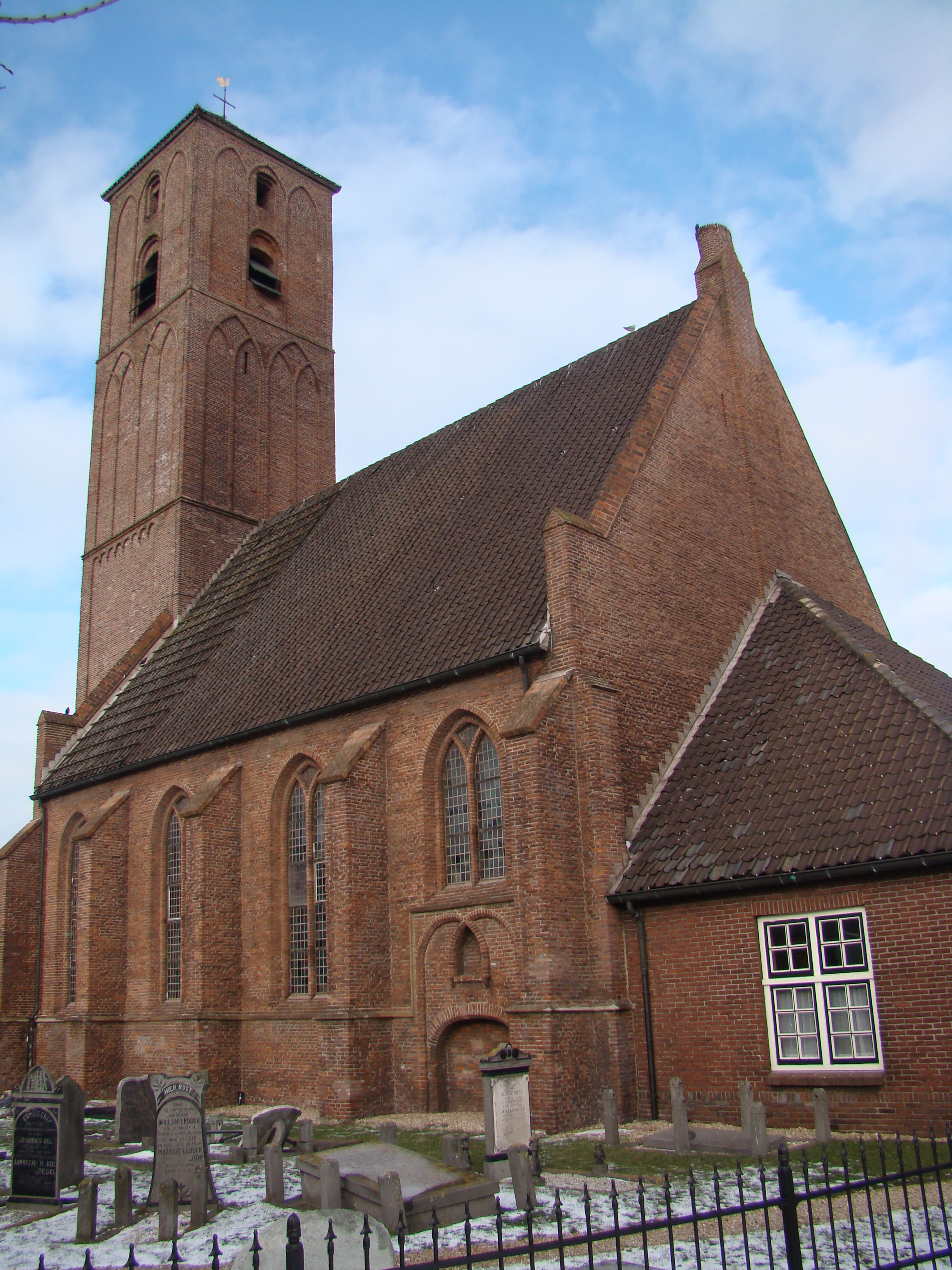 Villagechurch at Wijk aan Zee